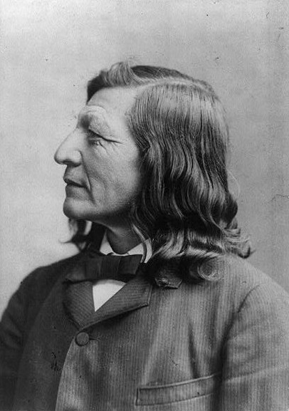 Luther Standing Bear (1868–1939), a Native American writer and actor